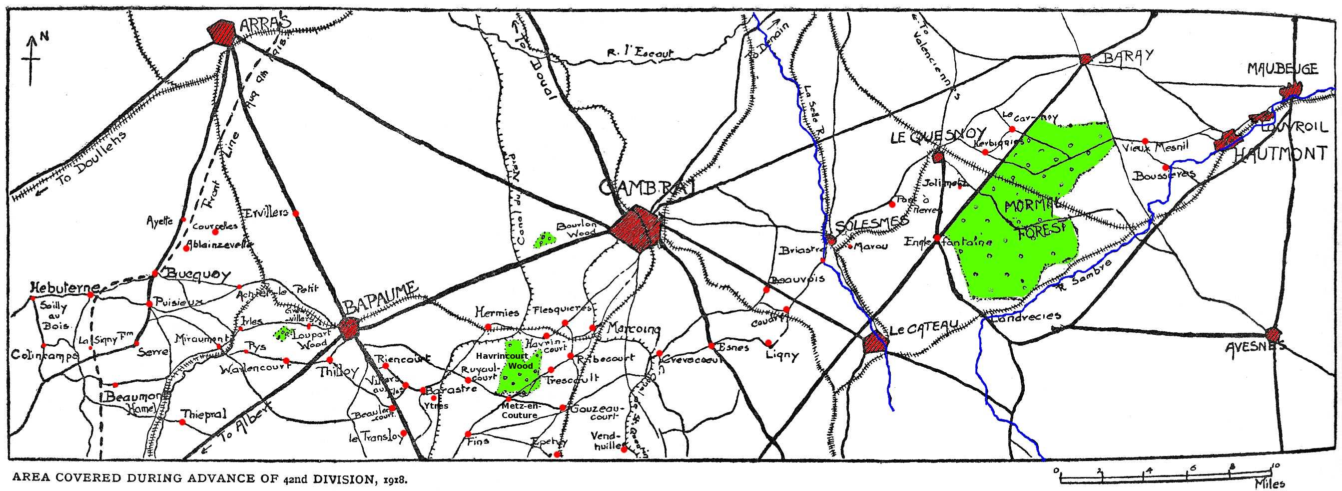 Map depicting the advance of the British 42nd Division in Picardy, 1918.